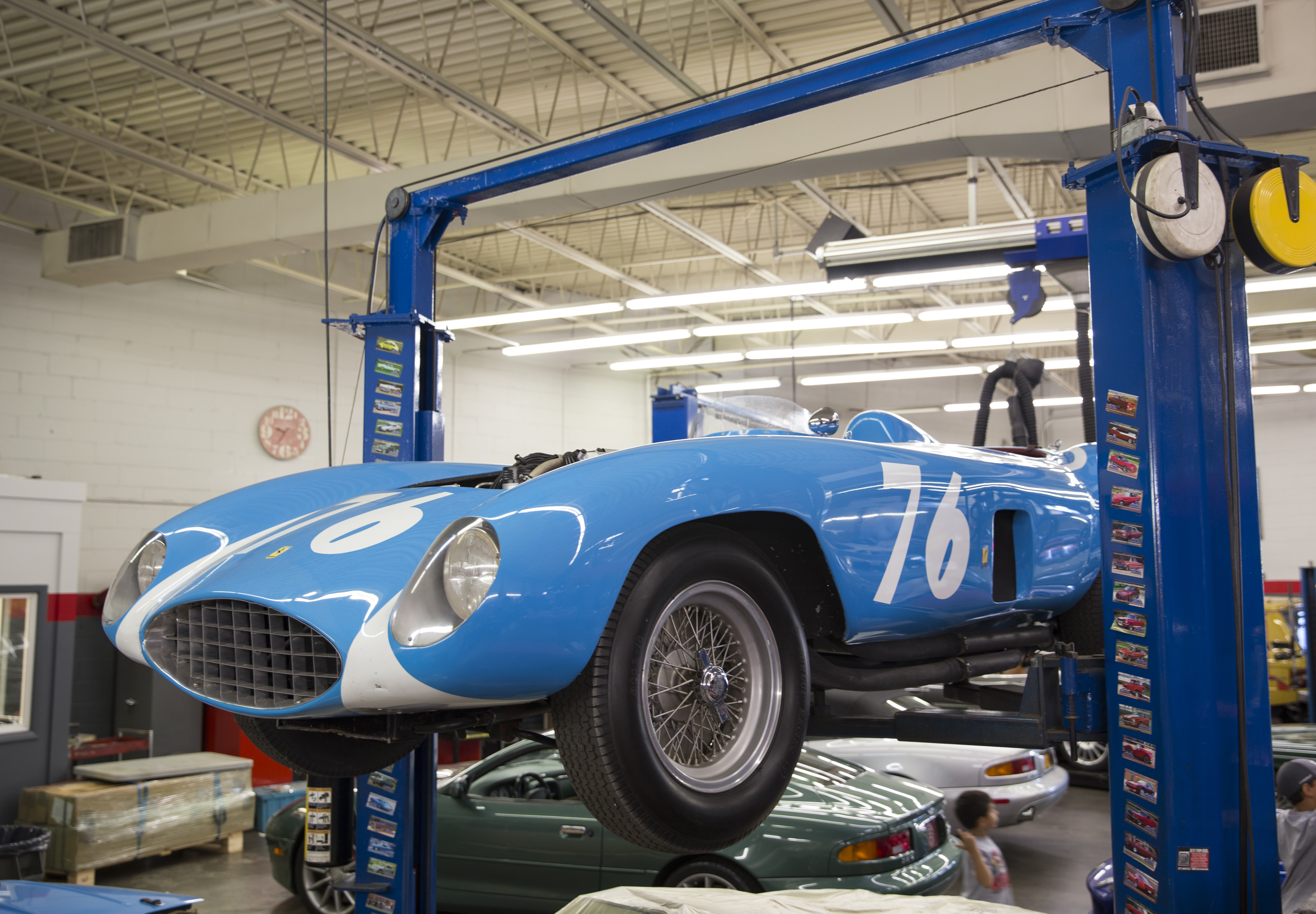 A 1955 Ferrari 121 LM Spider by Scaglietti at Autosports Designs in Huntington, NY (Long Island). Started out as a 118 LM and was modified later. 4414cc inline-six with 360 cavalli. 0546LM was the third 121 LM built and competed in the 1955 Mille Miglia as well as at Le Mans - retiring from both. It was then raced in California, where Ernie McAfee died in this car in 1956. It was raced in historic races from 1974 until 1997, after which it was mostly hidden until it sold for $5,720,000 in 2017. Here it is undergoing some fettling. More here.